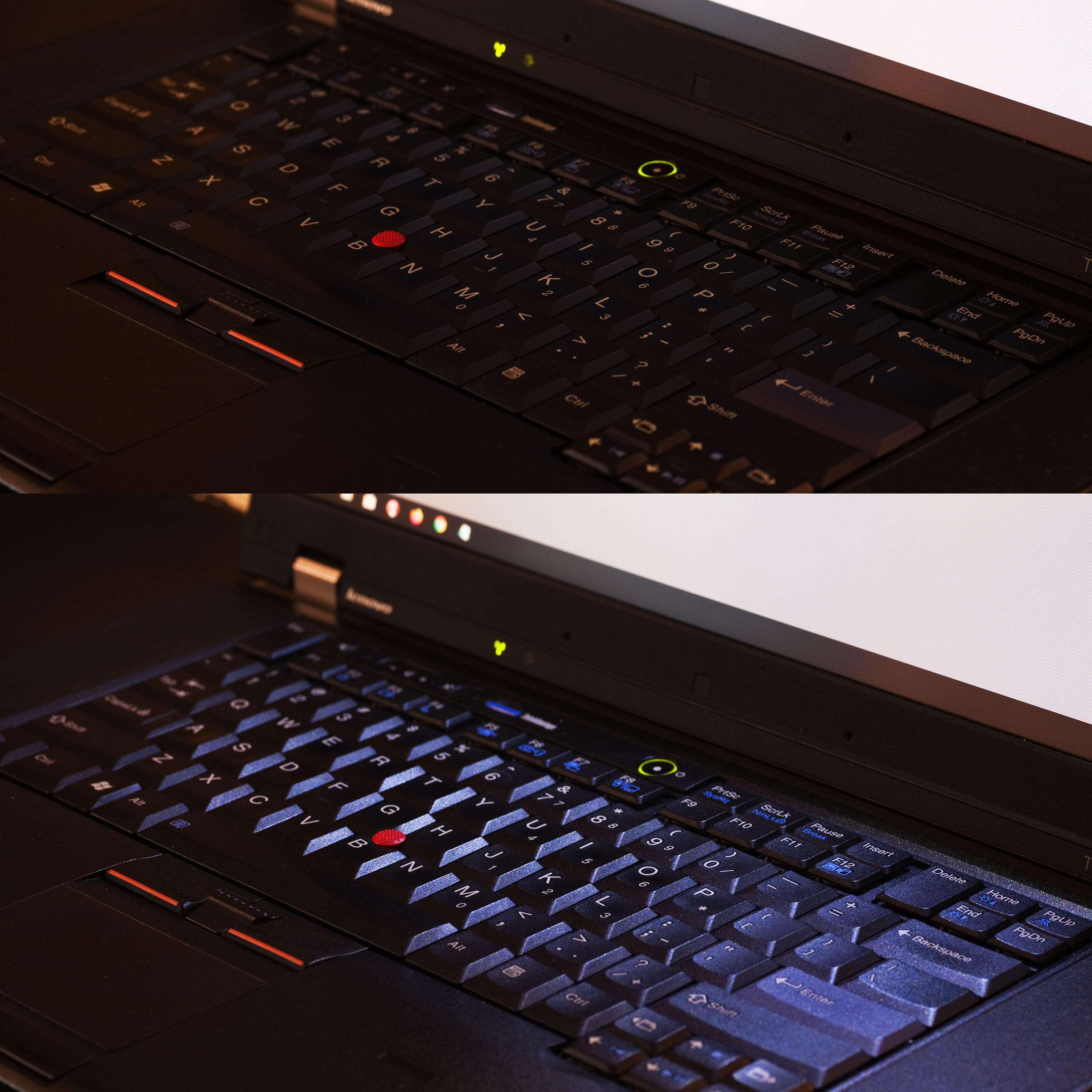 A ThinkPad T530's ThinkLight in action